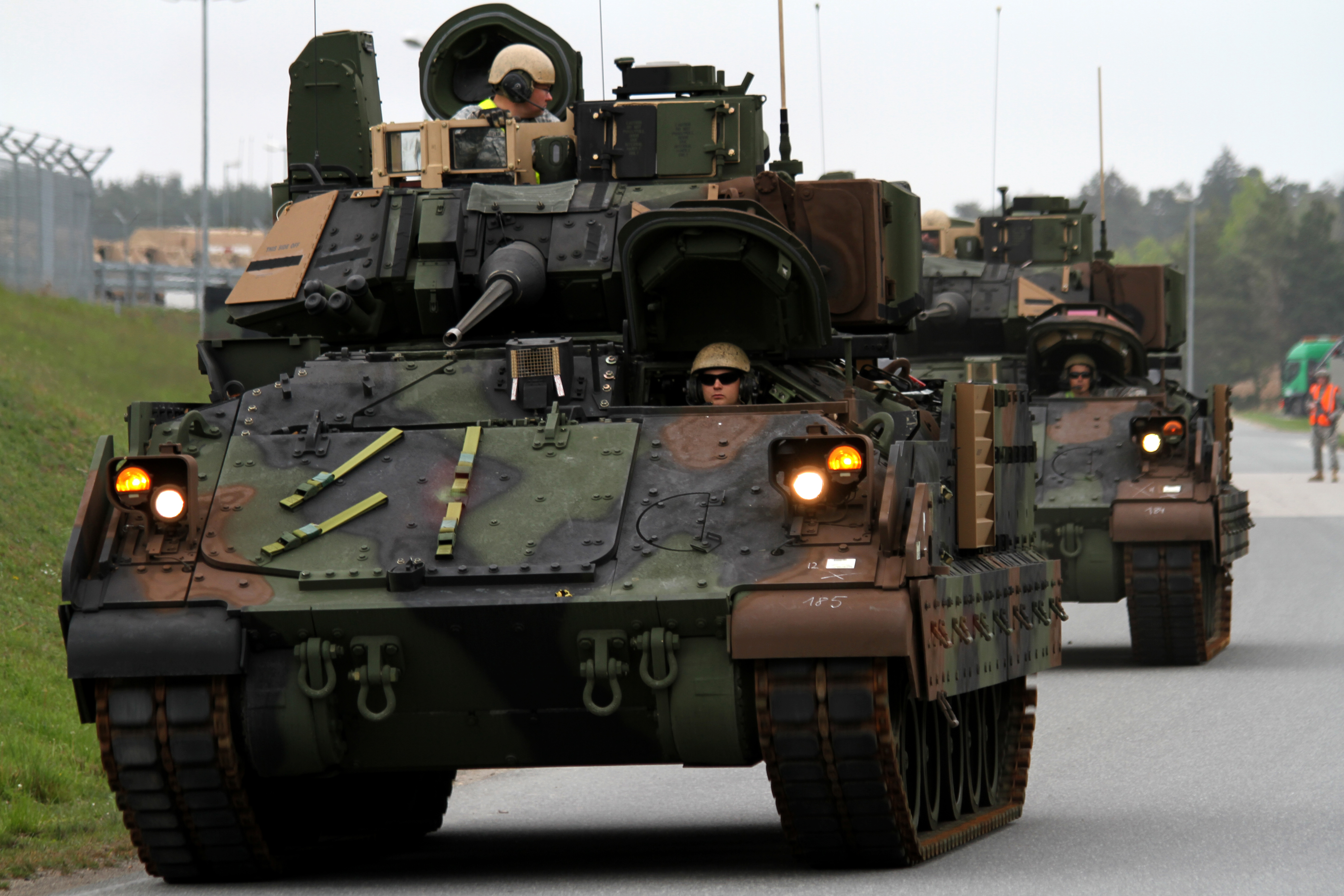 (U.S. Army photo by 1st Lt. Henry Chan)